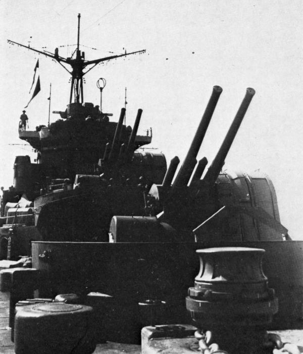 127mm anti aircraft guns on IJN seaplane carrier "Chitose" at Chinese East Sea.